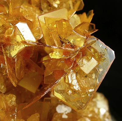 Wulfenite, Mimetite Locality: San Francisco Mine (Cerro Prieto Mine), Cerro Prieto, Cucurpe, Municipio de Cucurpe, Sonora, Mexico (Locality at ) Size: 5.5 x 4.4 x 3.2 cm. From the 1993 finds at this classic mine, in its last reopening and specimen mining phase, this is a classic miniature with crystals to about 1 cm, with great lustre and much gemminess. Now hard to find in good matrix specimens. Ex. Harold Urish Collection.